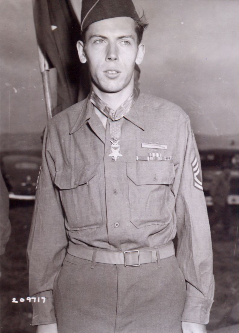 T/Sgt Currey, Francis S., Co. K 120th Infant Regt, 30th Infantry Div. of Hurleysville NY, wears the medal of honor presented to him at Camp Oklahoma City redeployment center near Reims, France by Maj. Gen. Leland S. Hobbs, CG, 30th infantry division for halting a German attack on his company during the battle of the bulge.